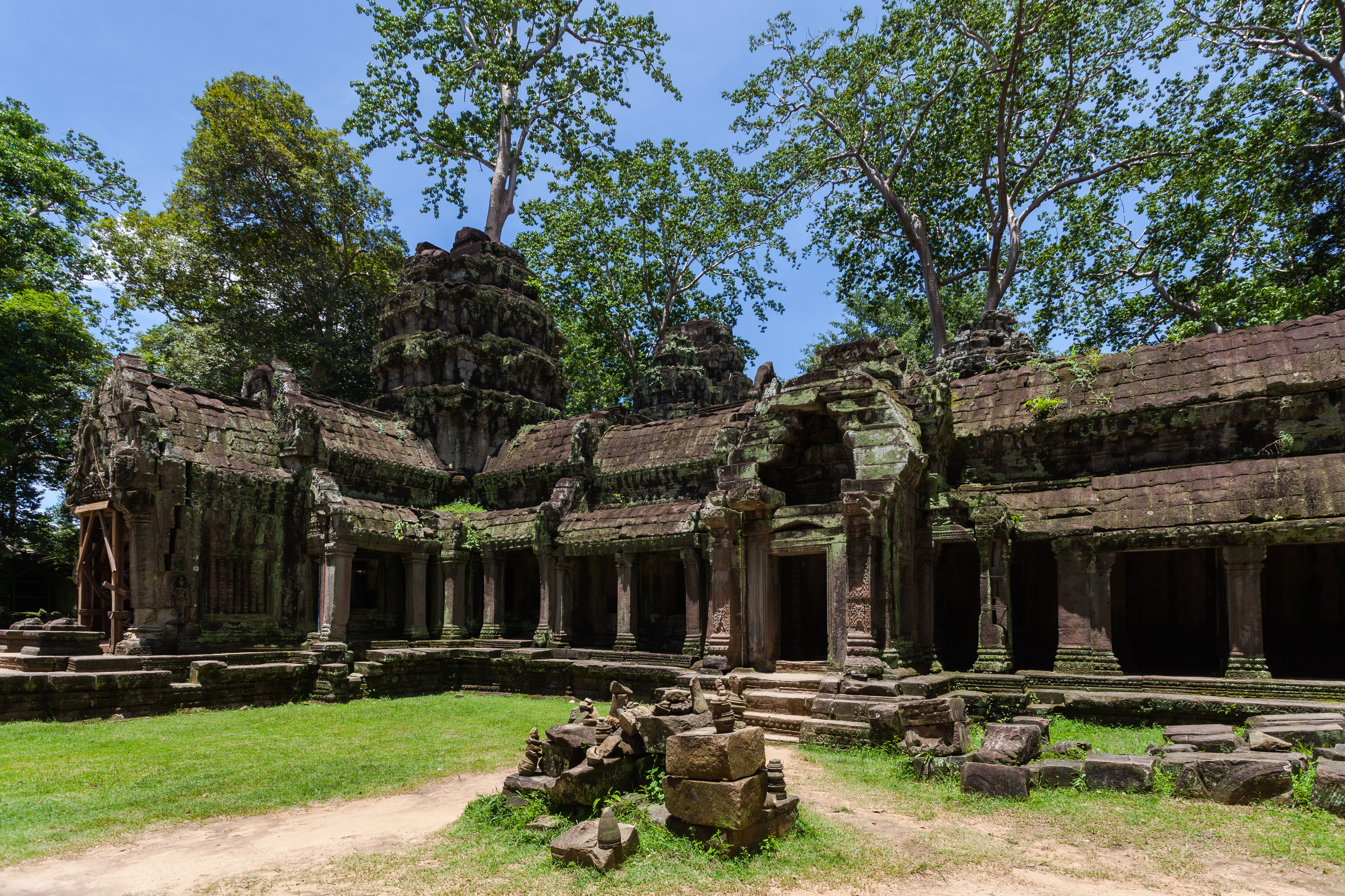 Ta Phrom, Angkor, Cambodia